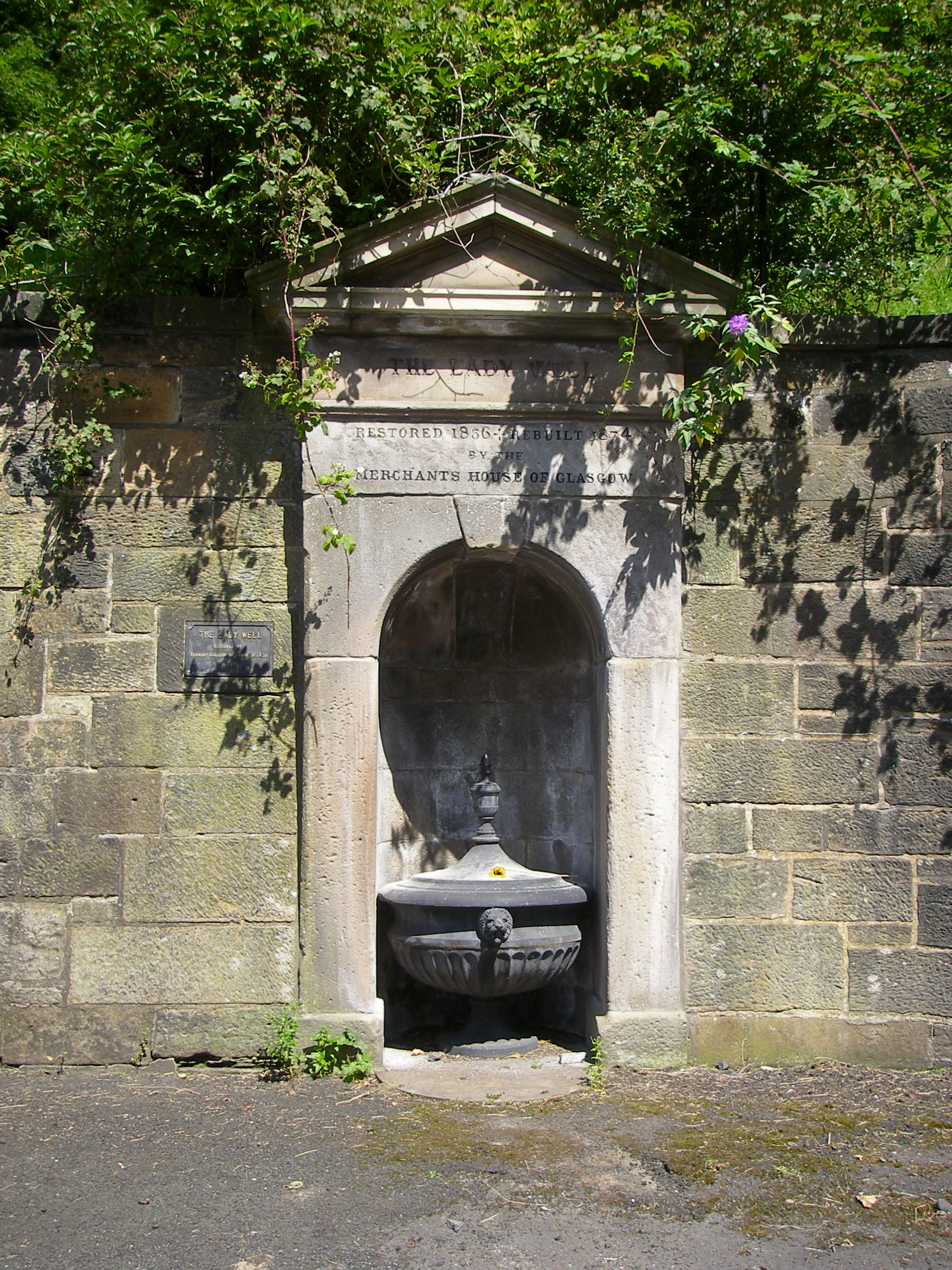 An image of the Lady Well, Glasgow.